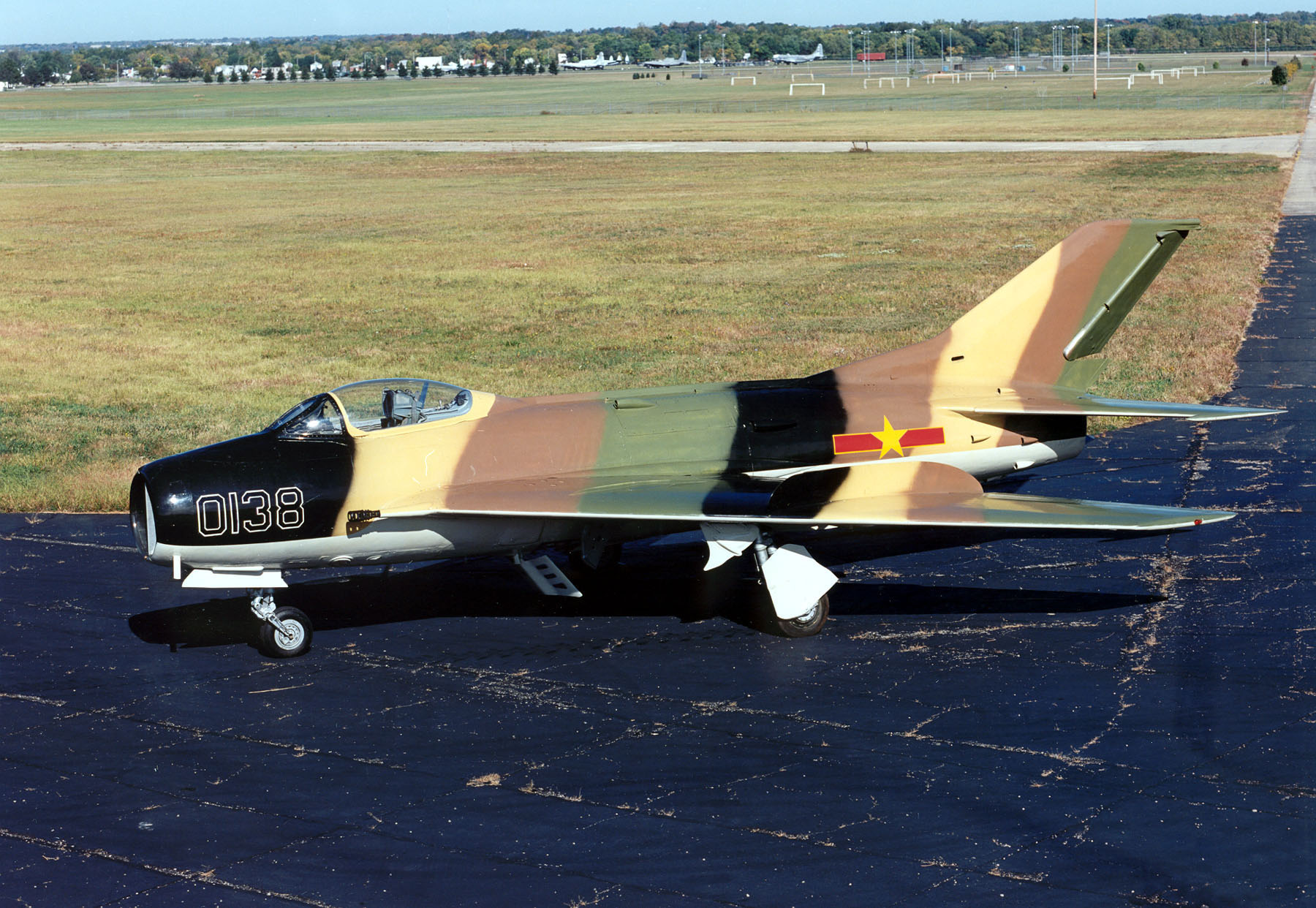 DAYTON, Ohio -- Mikoyan-Gurevich MiG-19S "Farmer" at the National Museum of the United States Air Force. (U.S. Air Force photo)